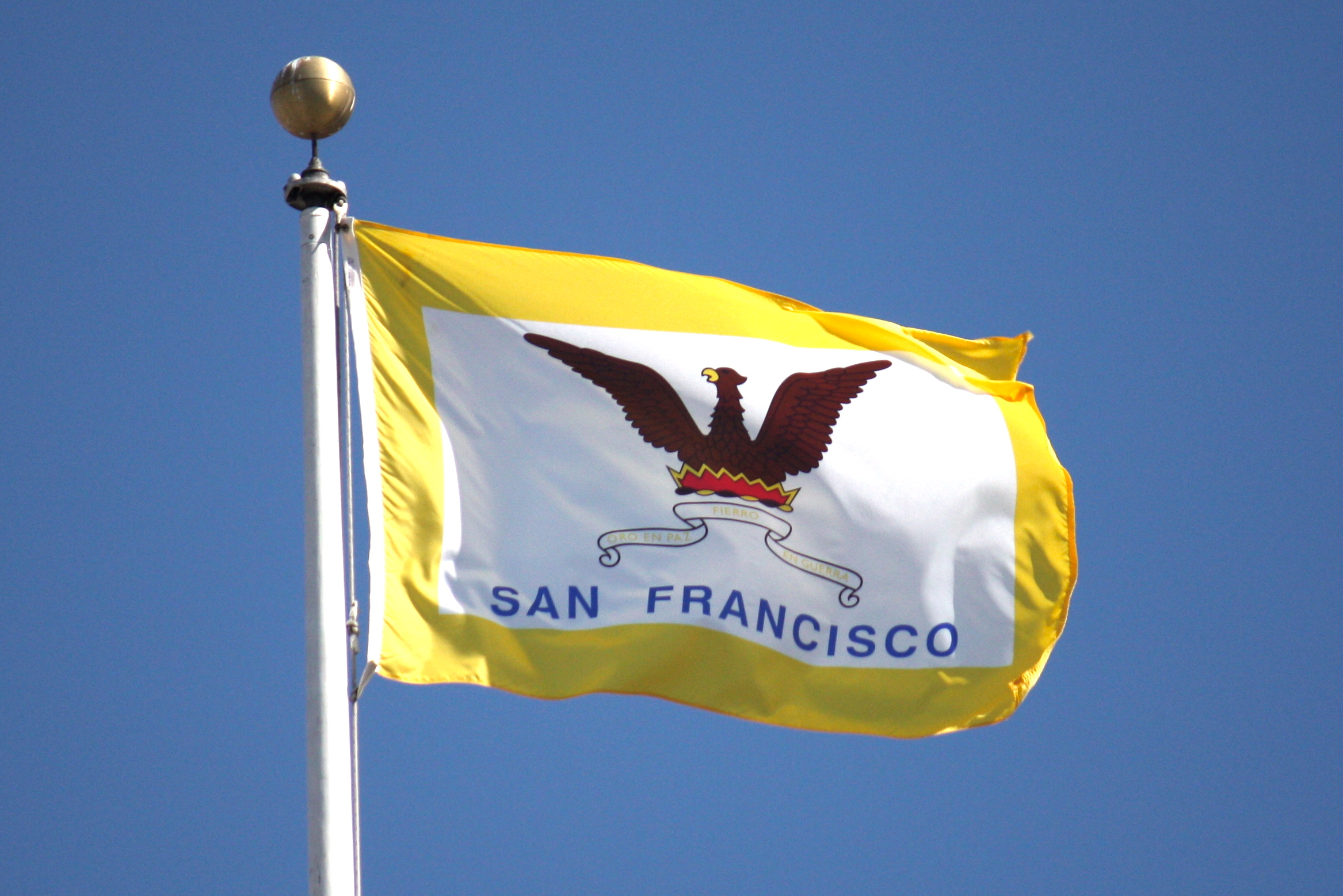 The flag of the city of San Francisco, California, flying at City Hall in San Francisco